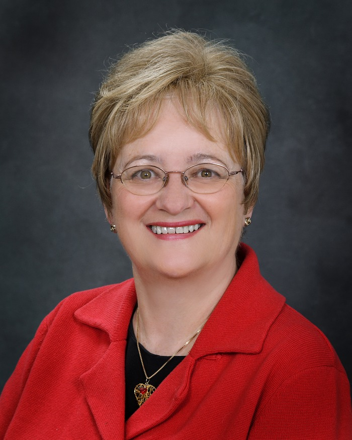 Photo of author Elizabeth J. Duncan